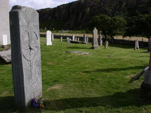 The Farr Stone. An 8th century Christianised Pictish stone in the churchyard of Farr Church, now Strathnaver Museum